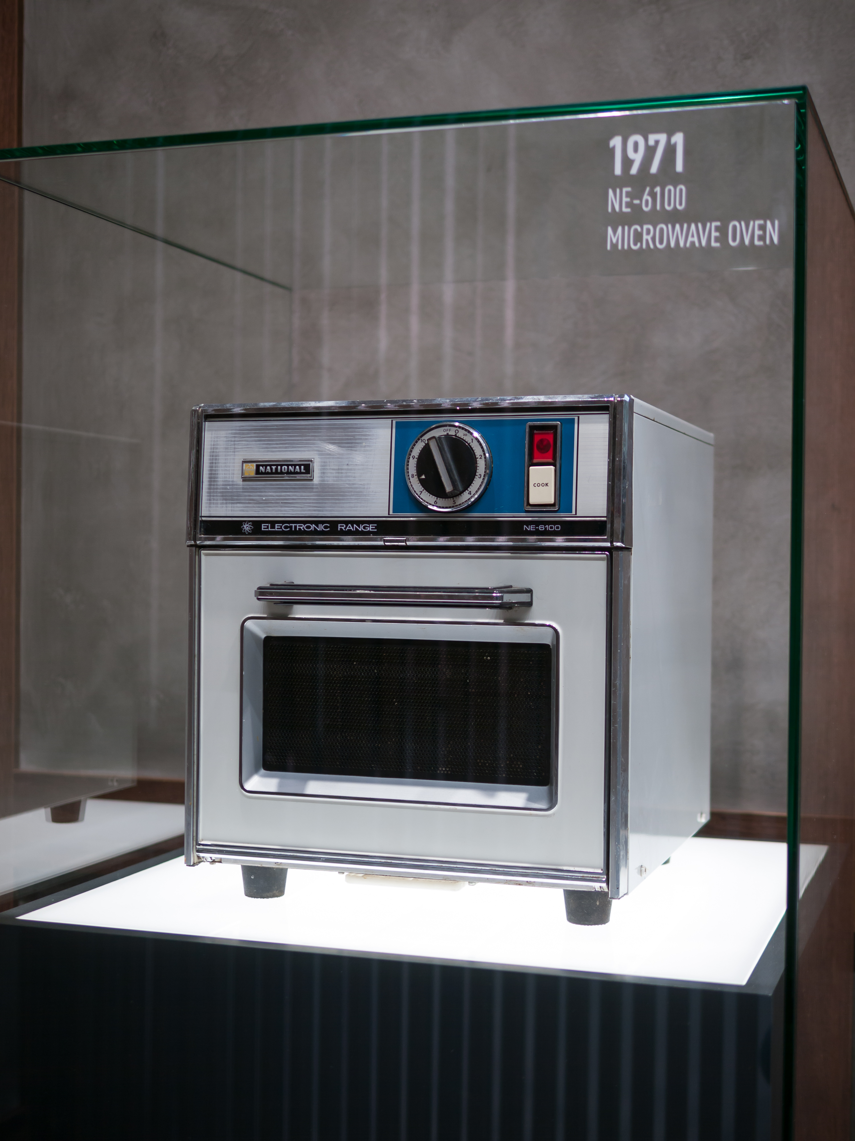 Panasonic, Internationale Funkausstellung 2018, Berlin